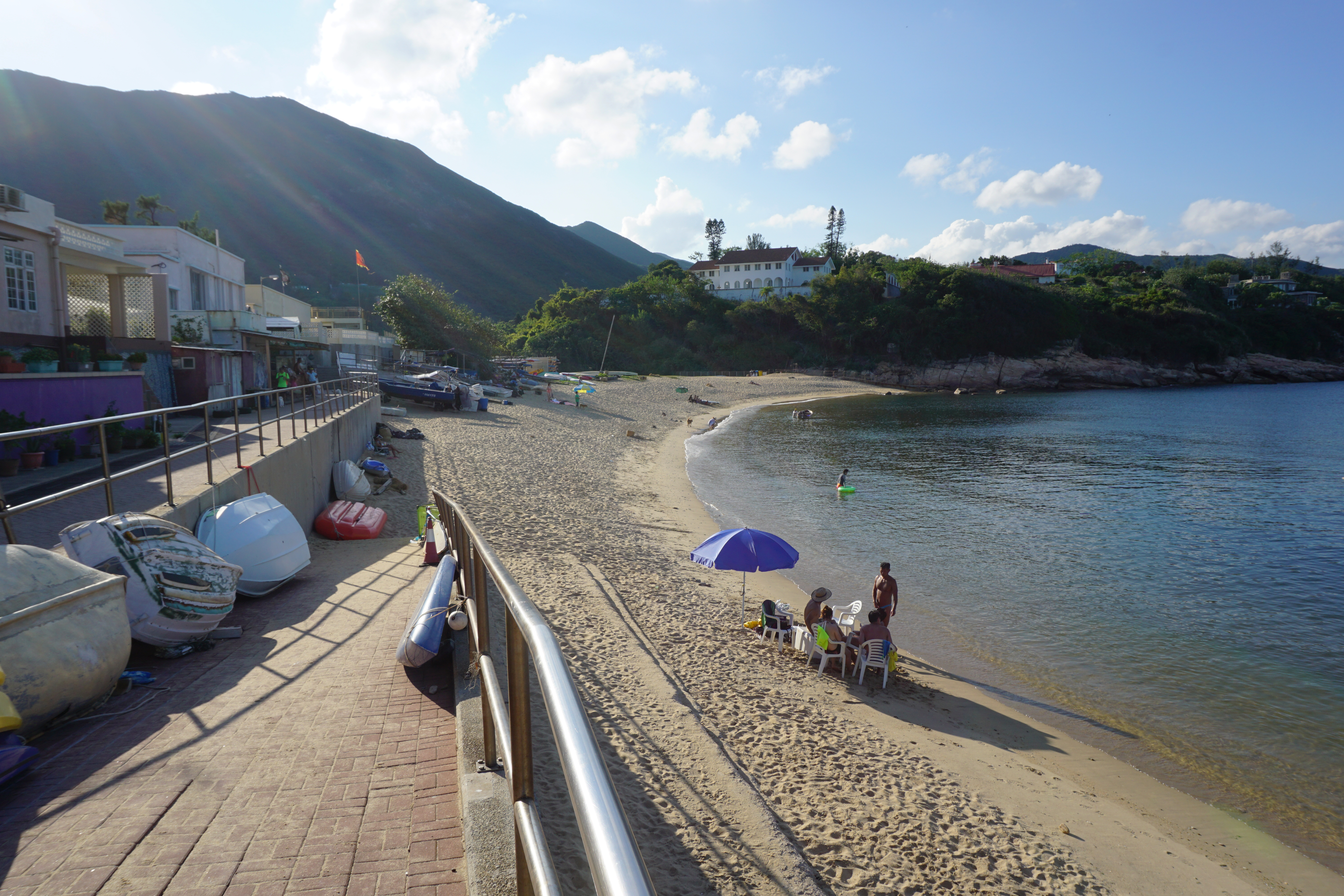 Rocky Bay Beach in Shek O, Hong Kong.